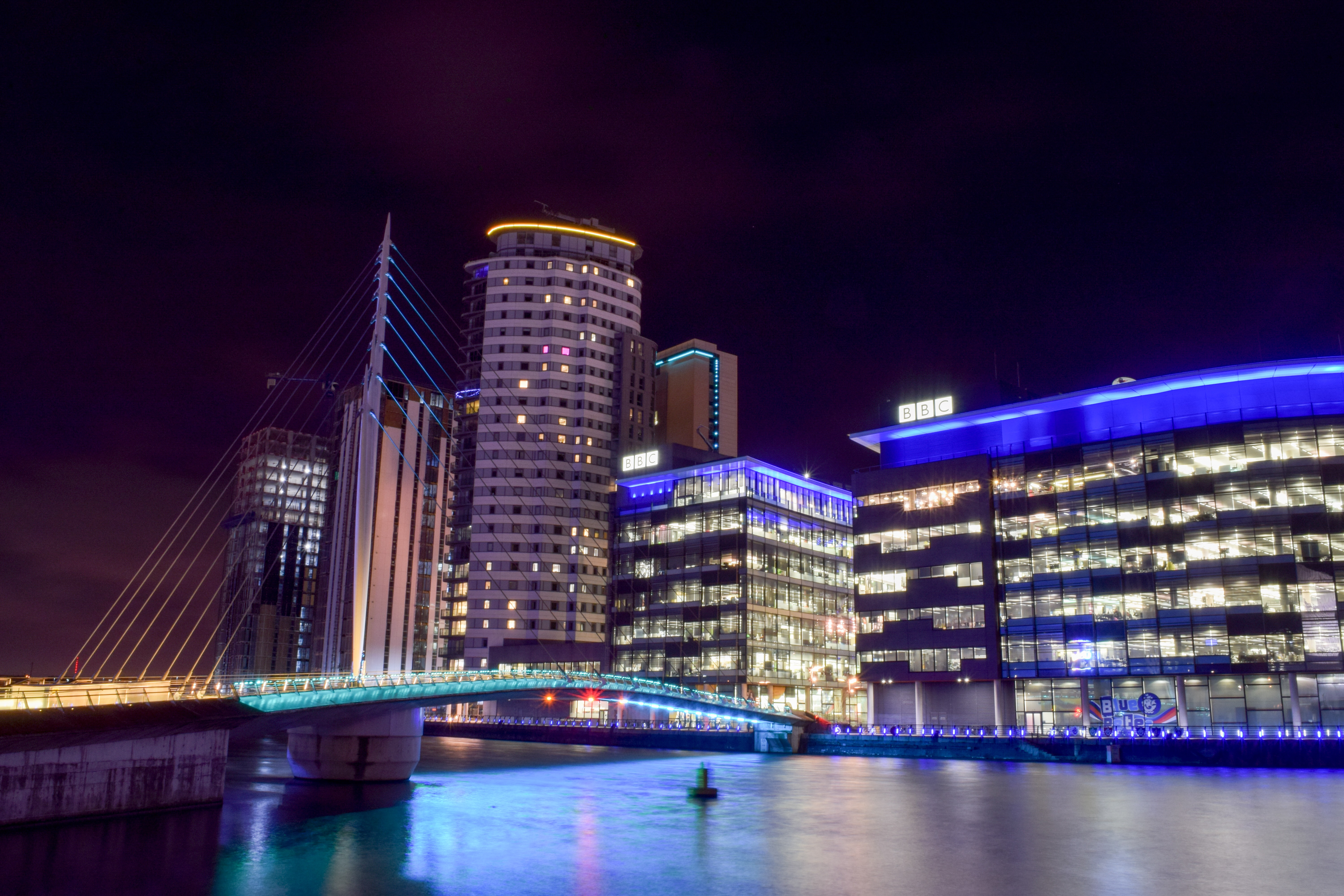 Image showing the MediaCityUK Footbridge at night from the southern bank looking towards the BBC buildings.